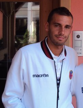 della rocca